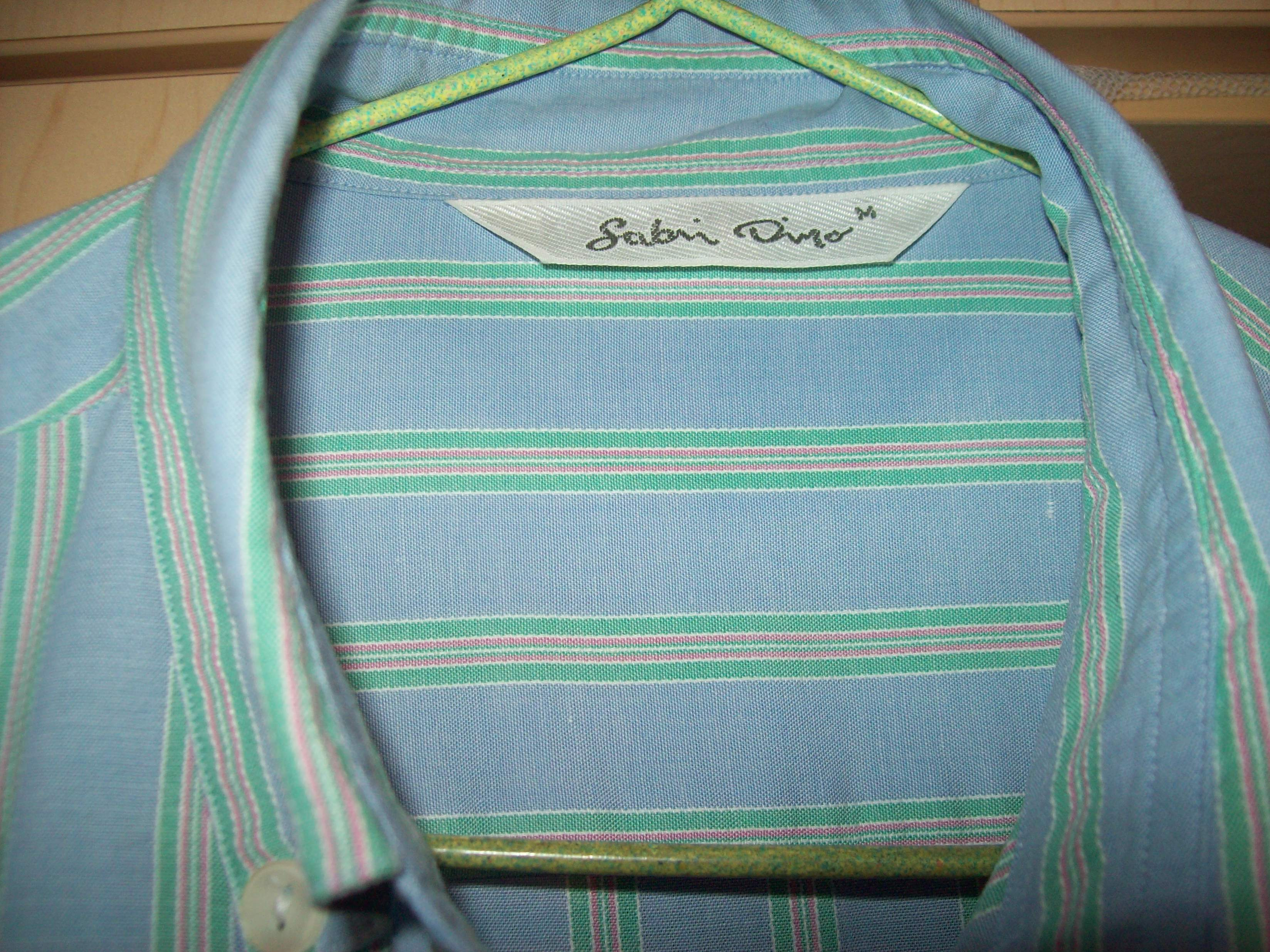 Defunct Sabri Dino brand shirt named after its creator the famous Turkish goalkeeper